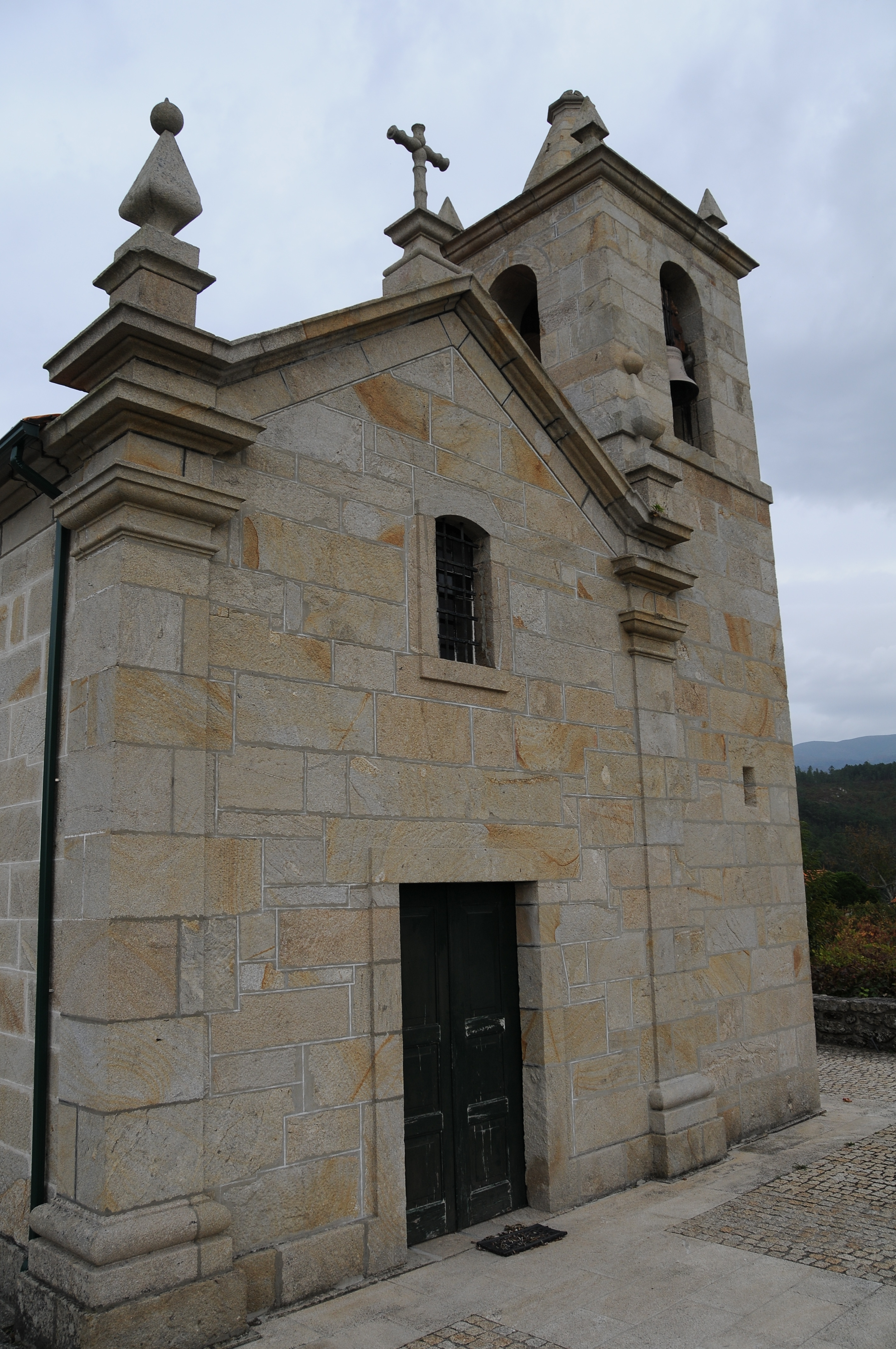 Podame Church, in Podame, Monção Portugal.